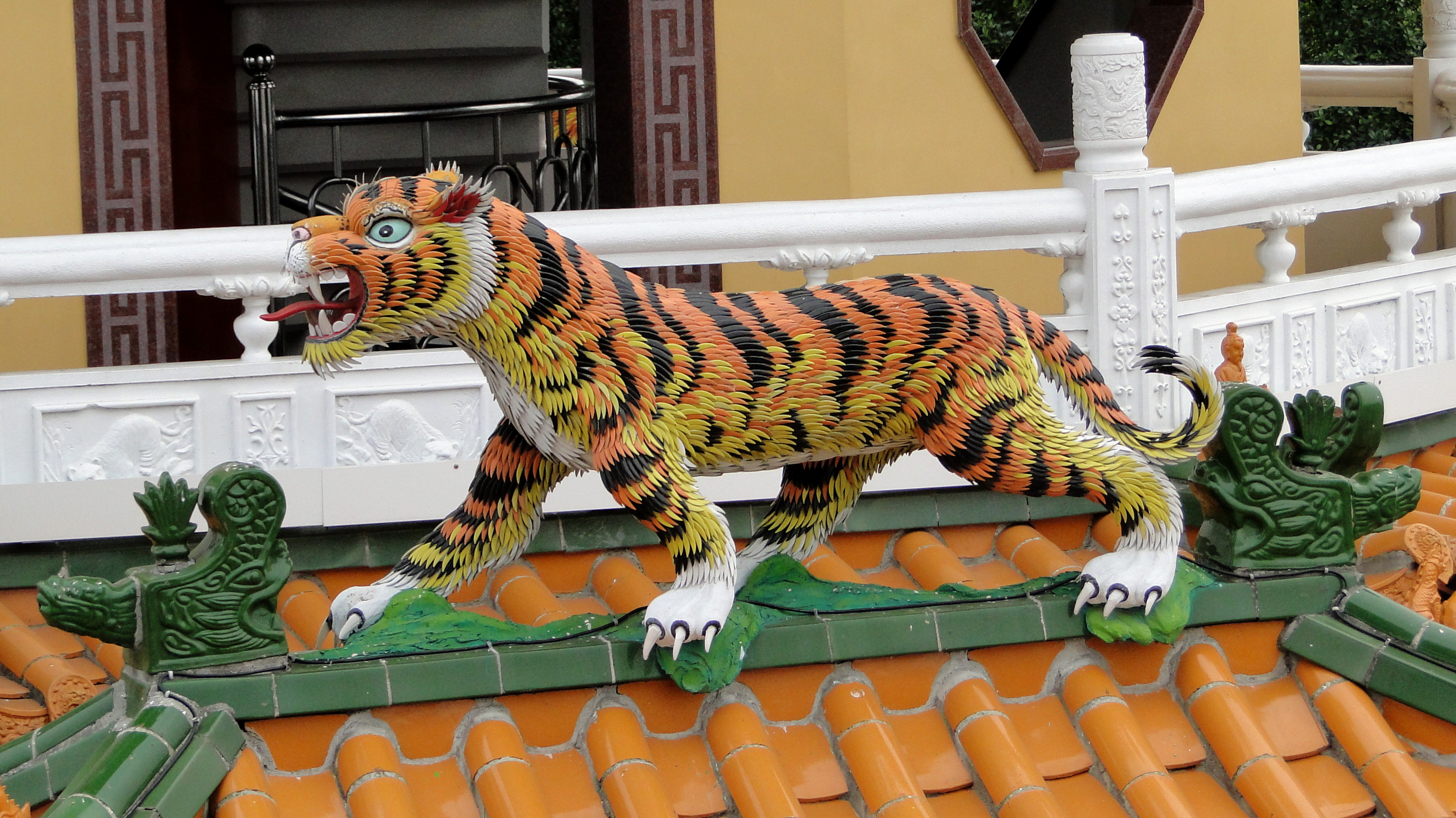 A tiger on Dragon and Tiger Pagodas, Kaohsiung, Taiwan